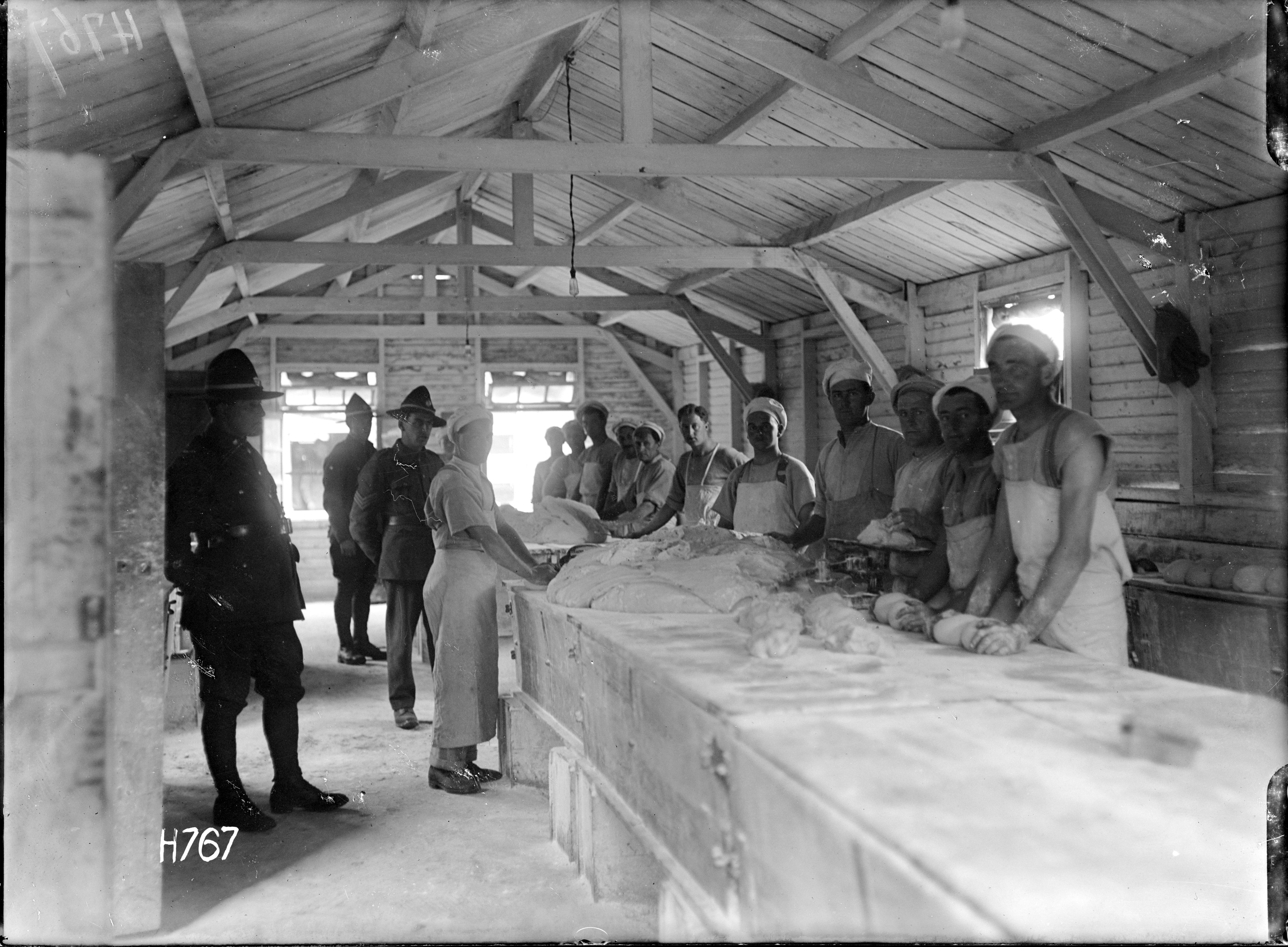 Men inside the 1st NZ Field Bakery where bread is baked for the troops. Thirteen of them wear aprons and caps and are working at a table with the dough. Photograph taken in 1918 by Henry Armytage Sanders. Inscriptions: Inscribed - bottom left: H767. Quantity: 1 b&w original negative(s). Men inside the 1st NZ Field Bakery. Royal New Zealand Returned and Services' Association :New Zealand official negatives, World War 1914-1918. Ref: 1/2-013362-G. Alexander Turnbull Library, Wellington, New Zealand.